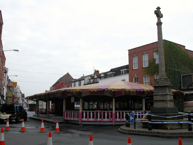 The Mop Fair in Tewkesbury, England.